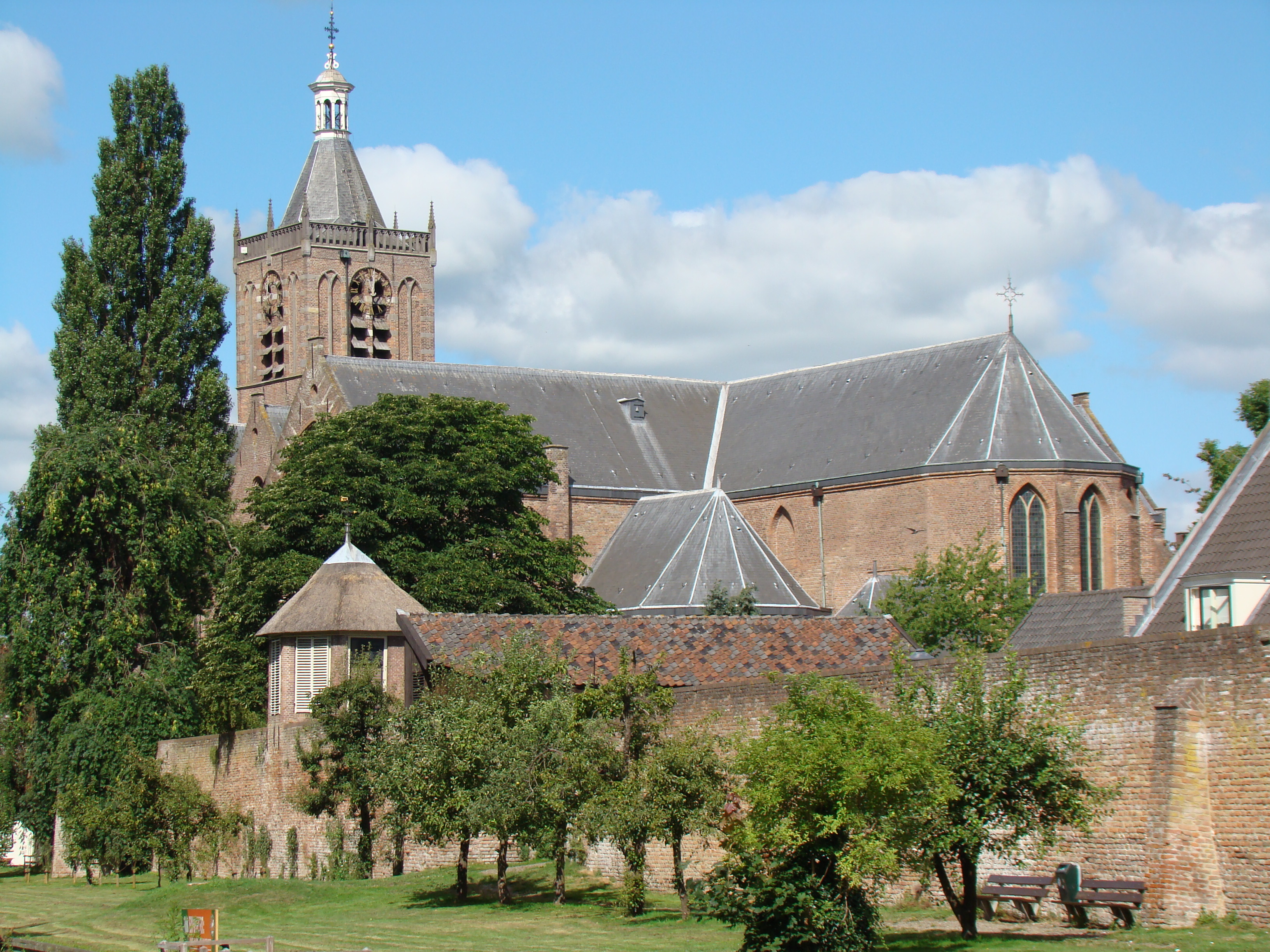 Monumental buildings in Vianen, the Netherlands